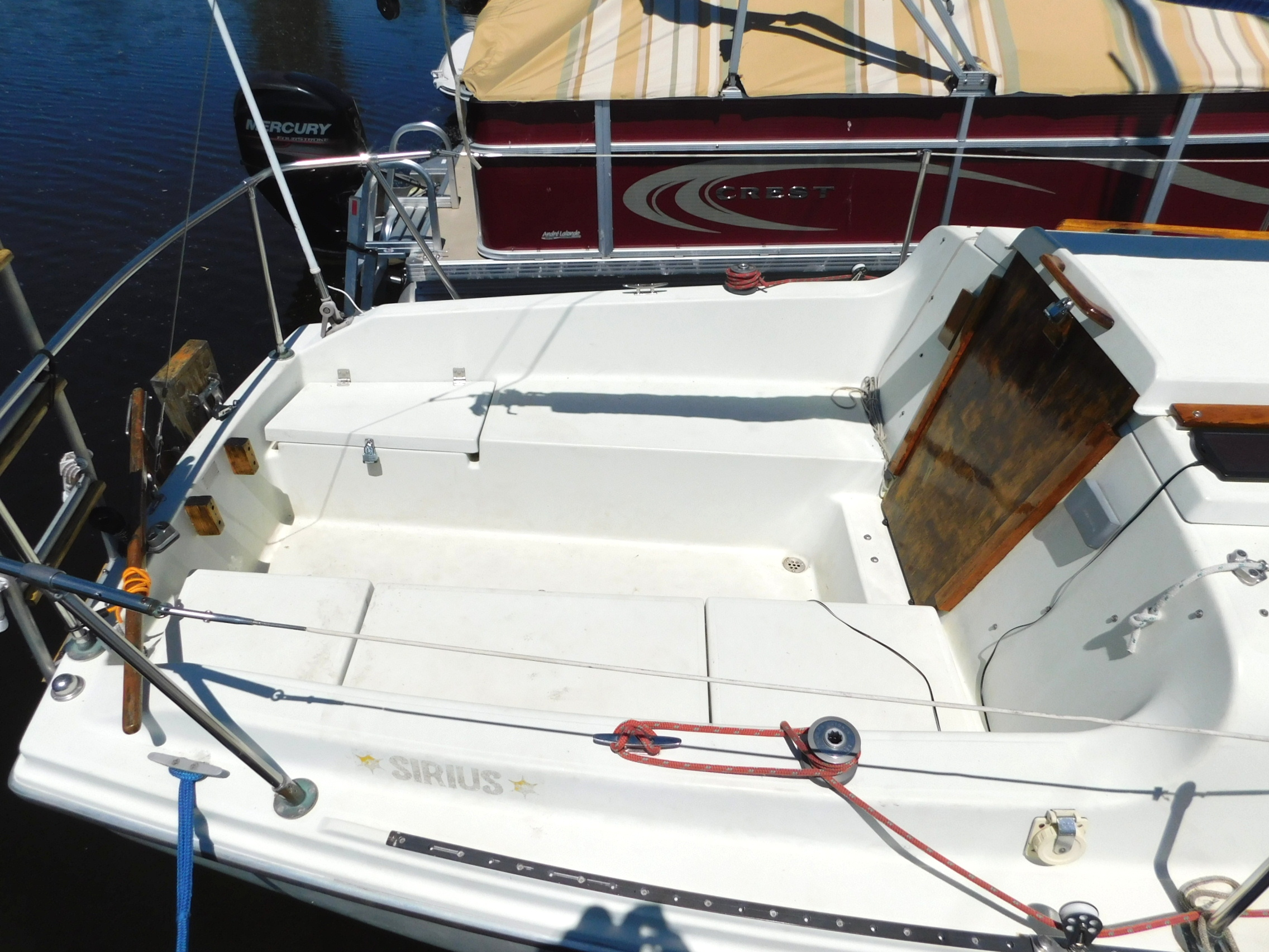 Cockpit of a Sirius 21 sailboat named Drifter.